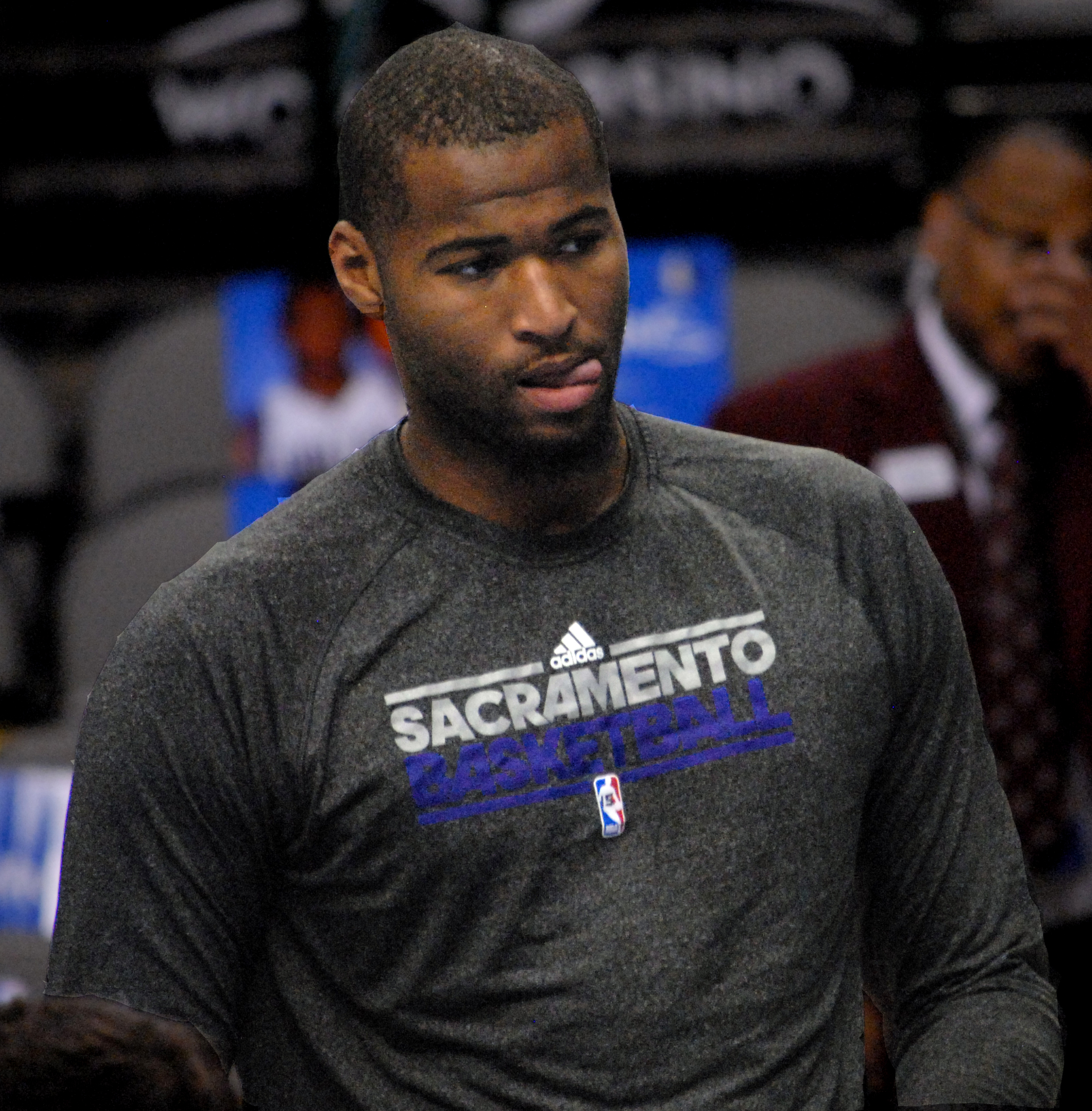 DeMarcus Cousins of the Sacramento Kings warming up before a game in 2012.